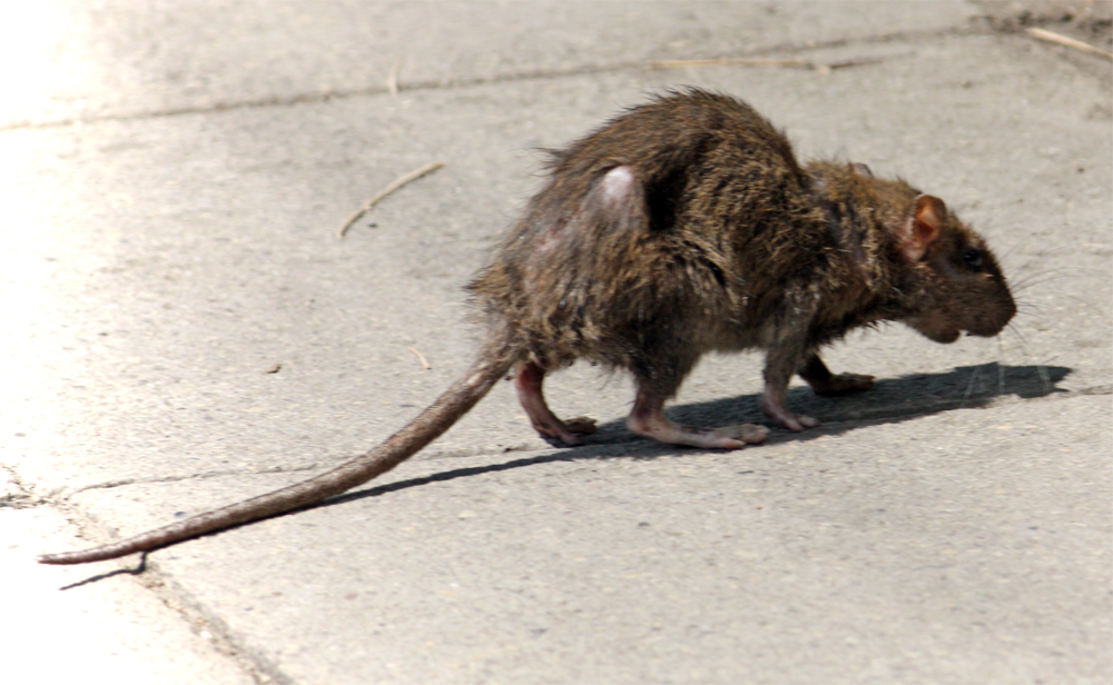 A rat in а street of Sofia